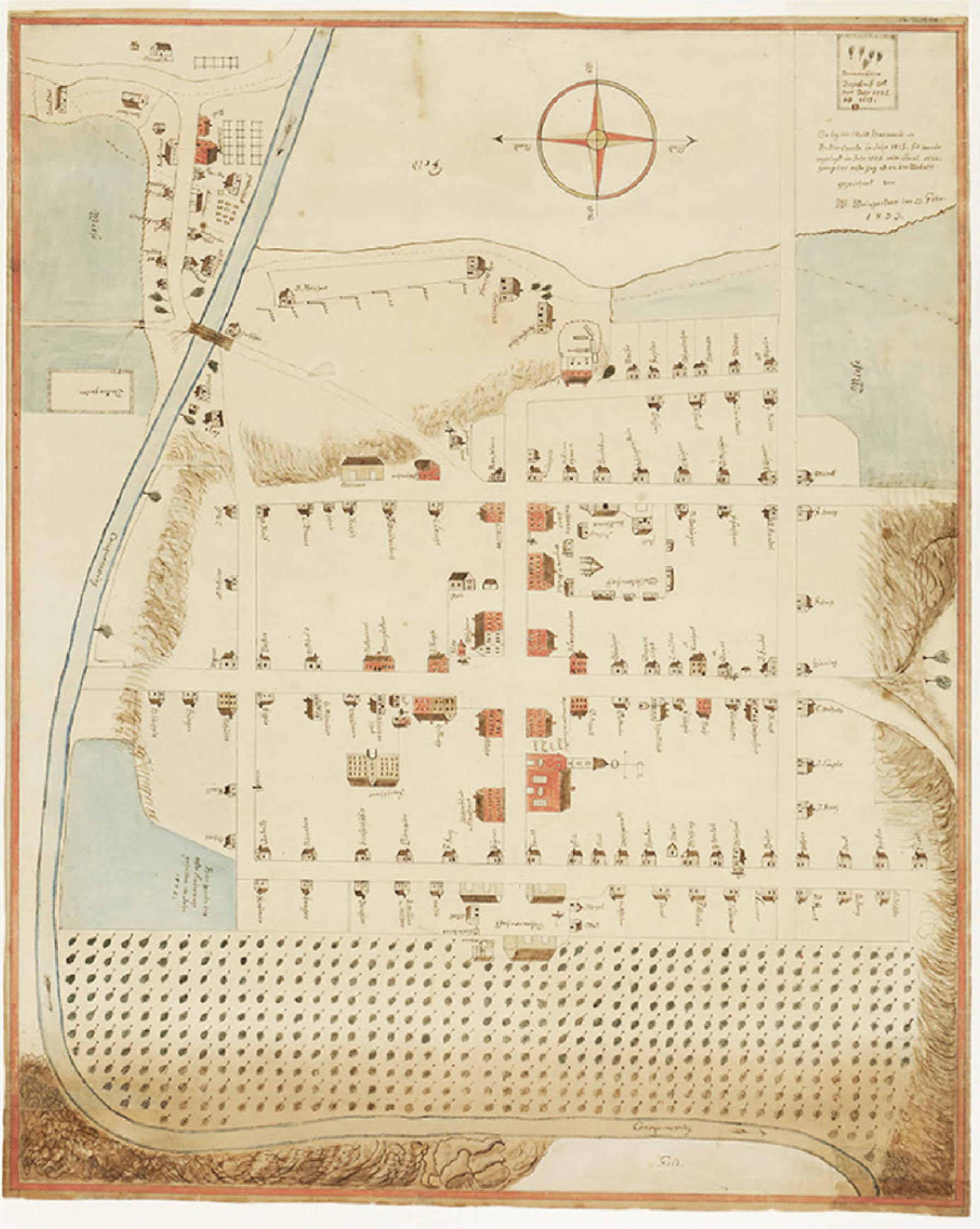 Harmony, Pennsylvania, as drawn by Wallrath Weingärtner (1795–1873) in 1833. Original ink and watercolor on paper, 21¾ inches by 17⅞ inches.